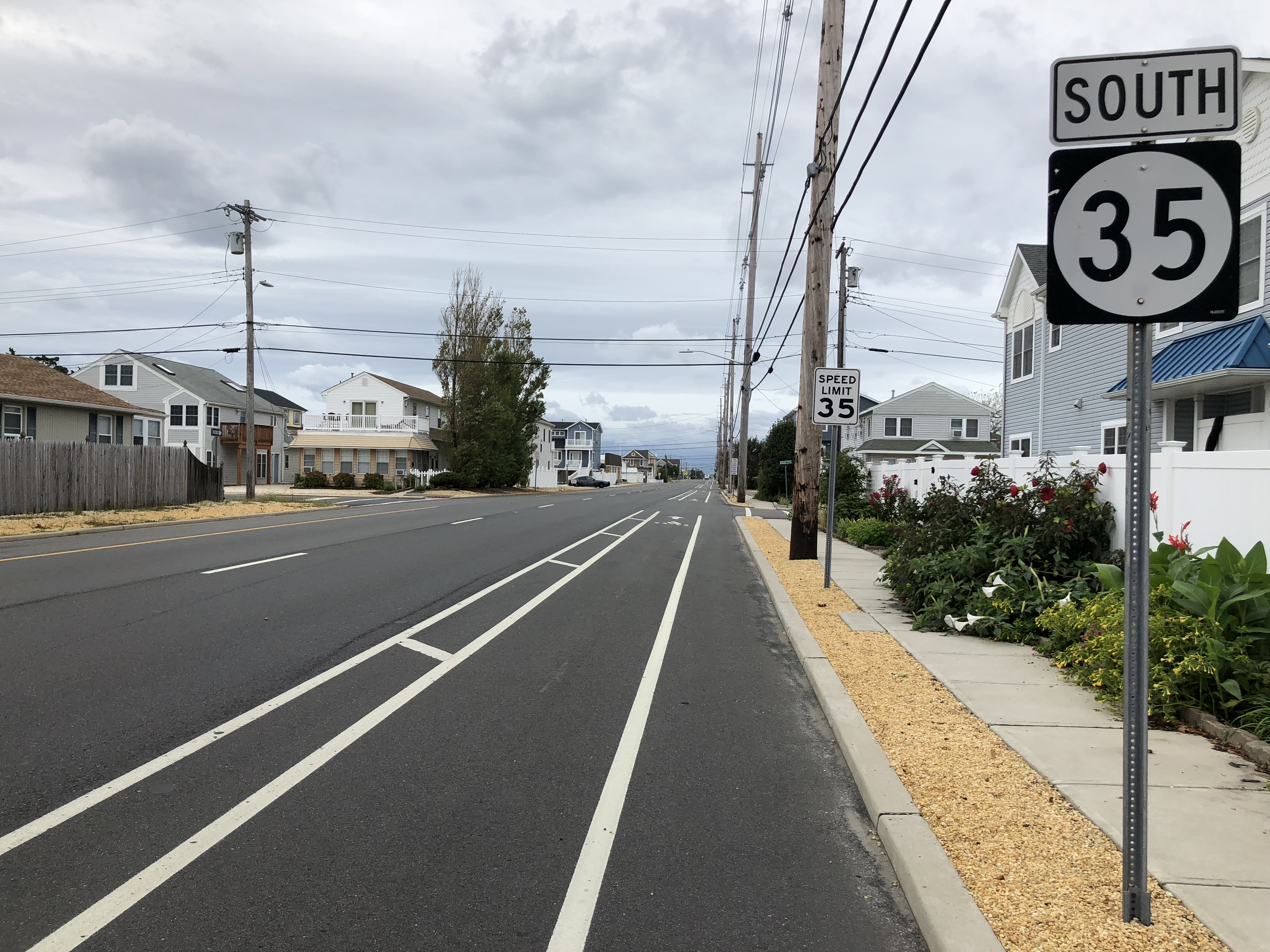 View south along New Jersey State Route 35 (Anna O Hankins Boulevard) just south of President Avenue in Lavallette, Ocean County, New Jersey